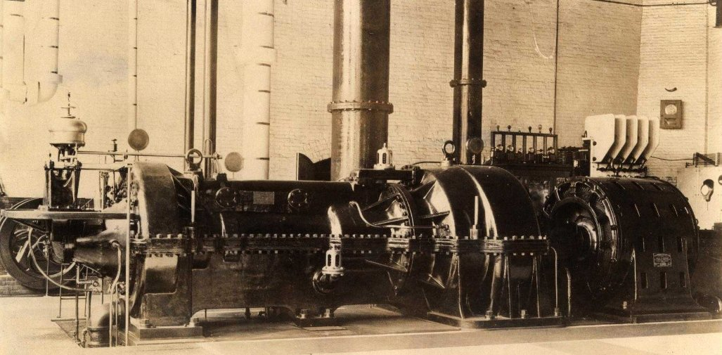 A steam turbine named "Mary-Ann" at the Hartford Electric Light Company in Connecticut